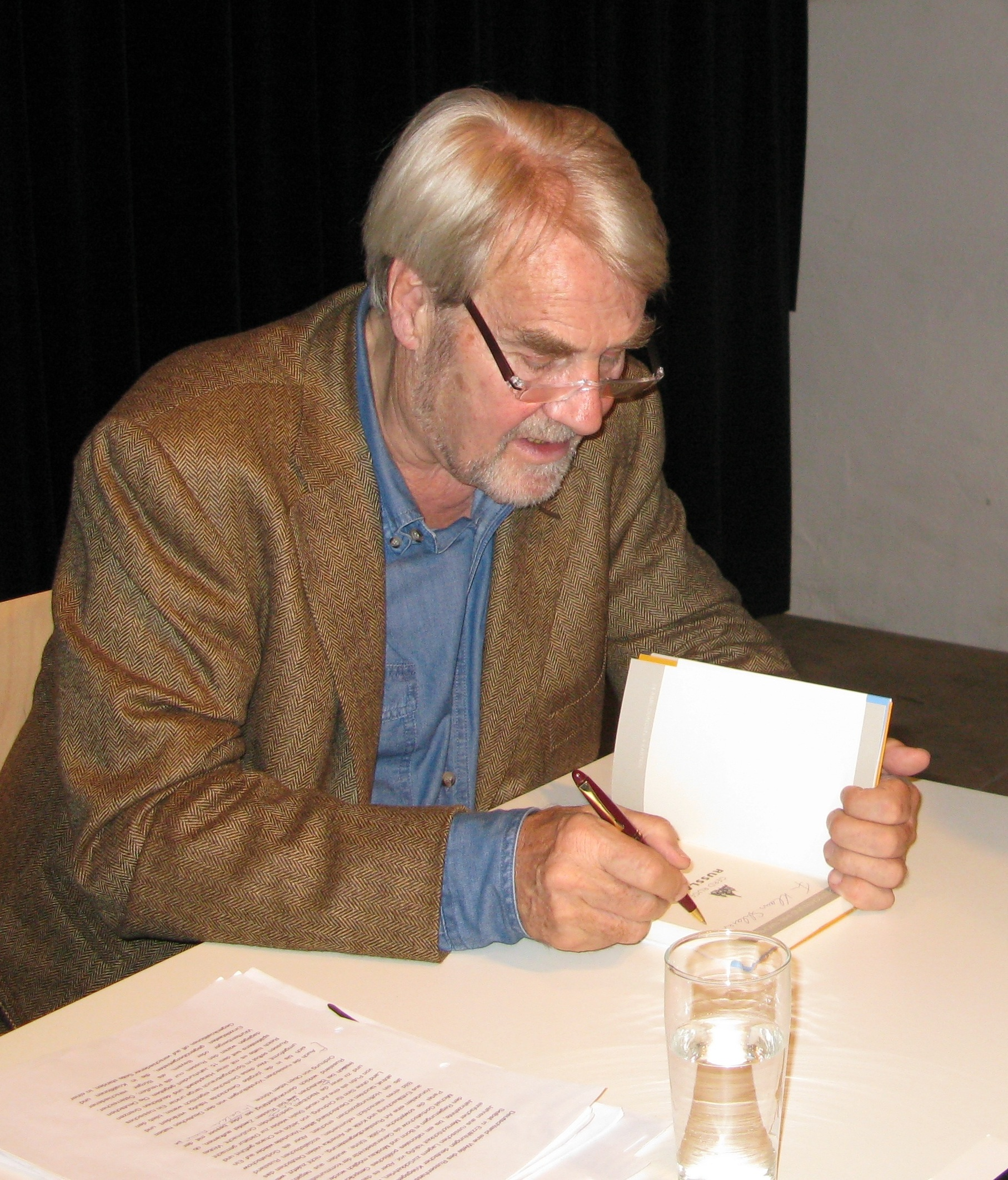 German journalist, author and filmmaker Gerd Ruge signs a copy of his book "Russland" ("Russia").